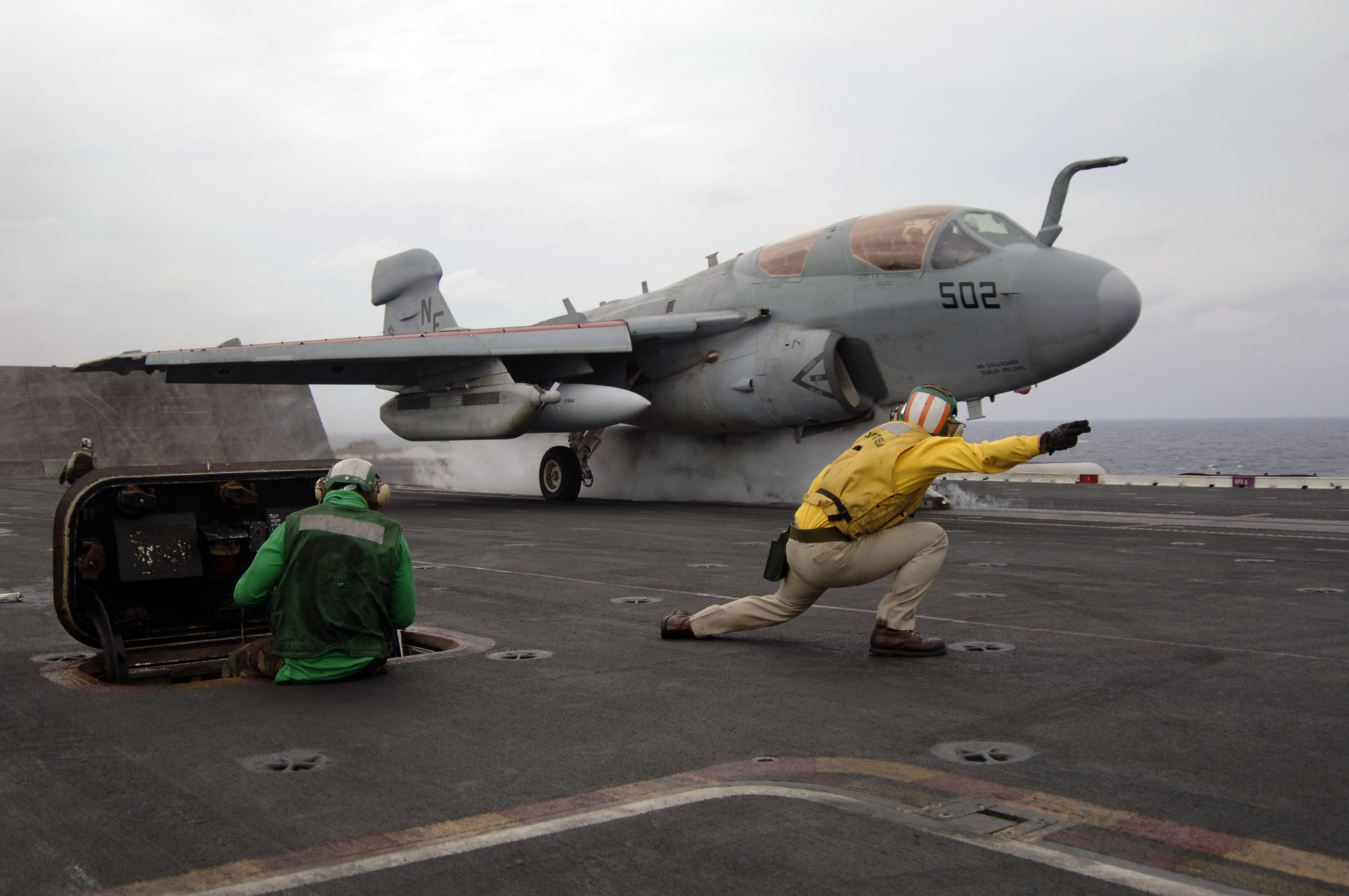 Philippine Sea (Dec. 1, 2006) - An EA-6B Prowler assigned to Electronic Warfare Squadron One Three Six (VAQ-136) launches off the flight deck of USS Kitty Hawk (CV 63) during flight operations. Kitty Hawk, operating out of Fleet Activities Yokosuka, Japan, is currently deployed off Okinawa on a regularly scheduled deployment. U.S. Navy photo by Mass Communication Specialist Seaman Stephen W. Rowe (RELEASED)